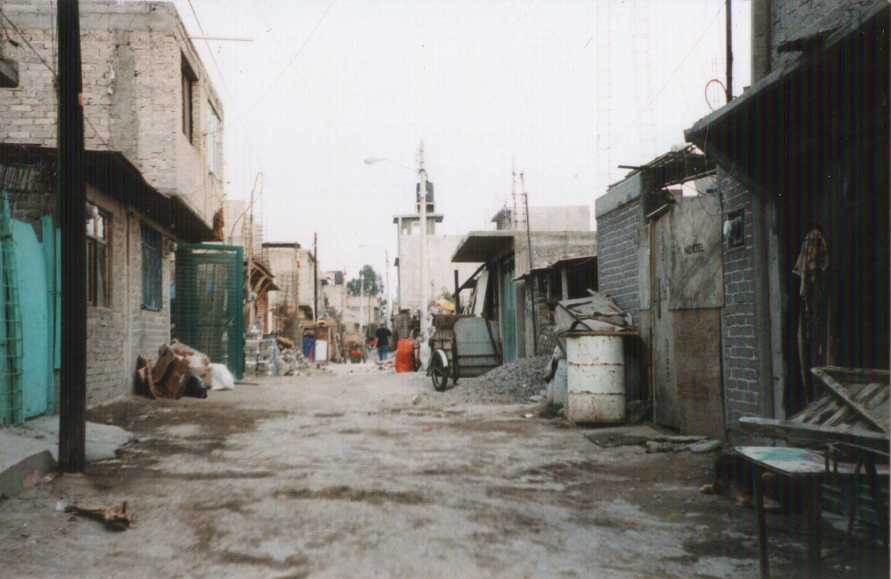 Nezahualcoyotl slum, just outside Mexico, DF